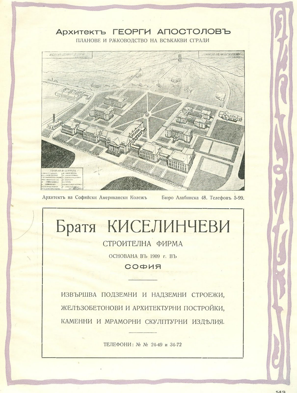 Kiselinchev brothers advertisment